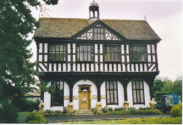 The Grange, Leominster. This attractive "Magpie" building is the old town hall. It was built in 1633 but removed in 1855 and now stands in a small park just east of the town centre.